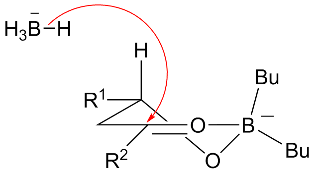 Transition state for the Narasaka–Prasad reduction showing the reason for the diastereoselectivity